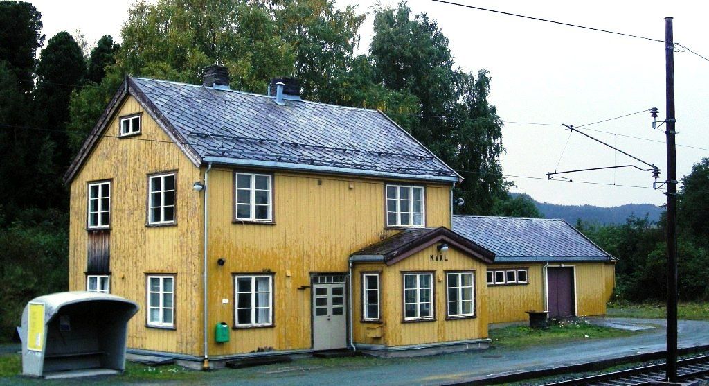 Kvål station on the Dovre and Røros lines (Sør-Trøndelag, Norway)